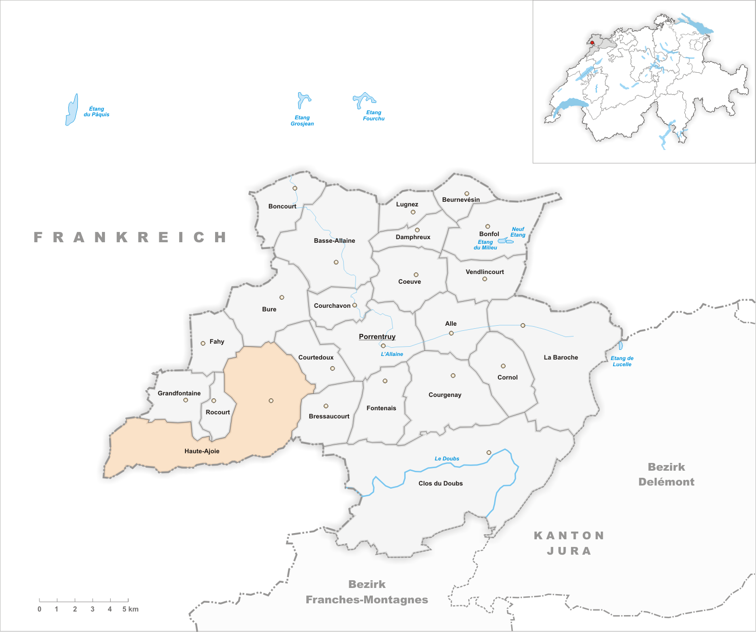 Municipality Haute-Ajoie